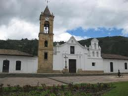 Iglesia San Bartoleme Apostol Gachancipá